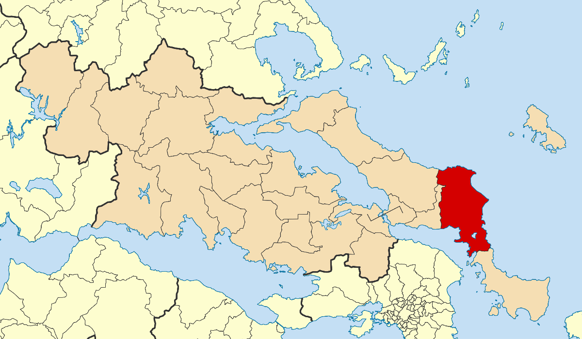 Locator map for Kymi-Aliveri municipality in Greek region Central Greece (2011)